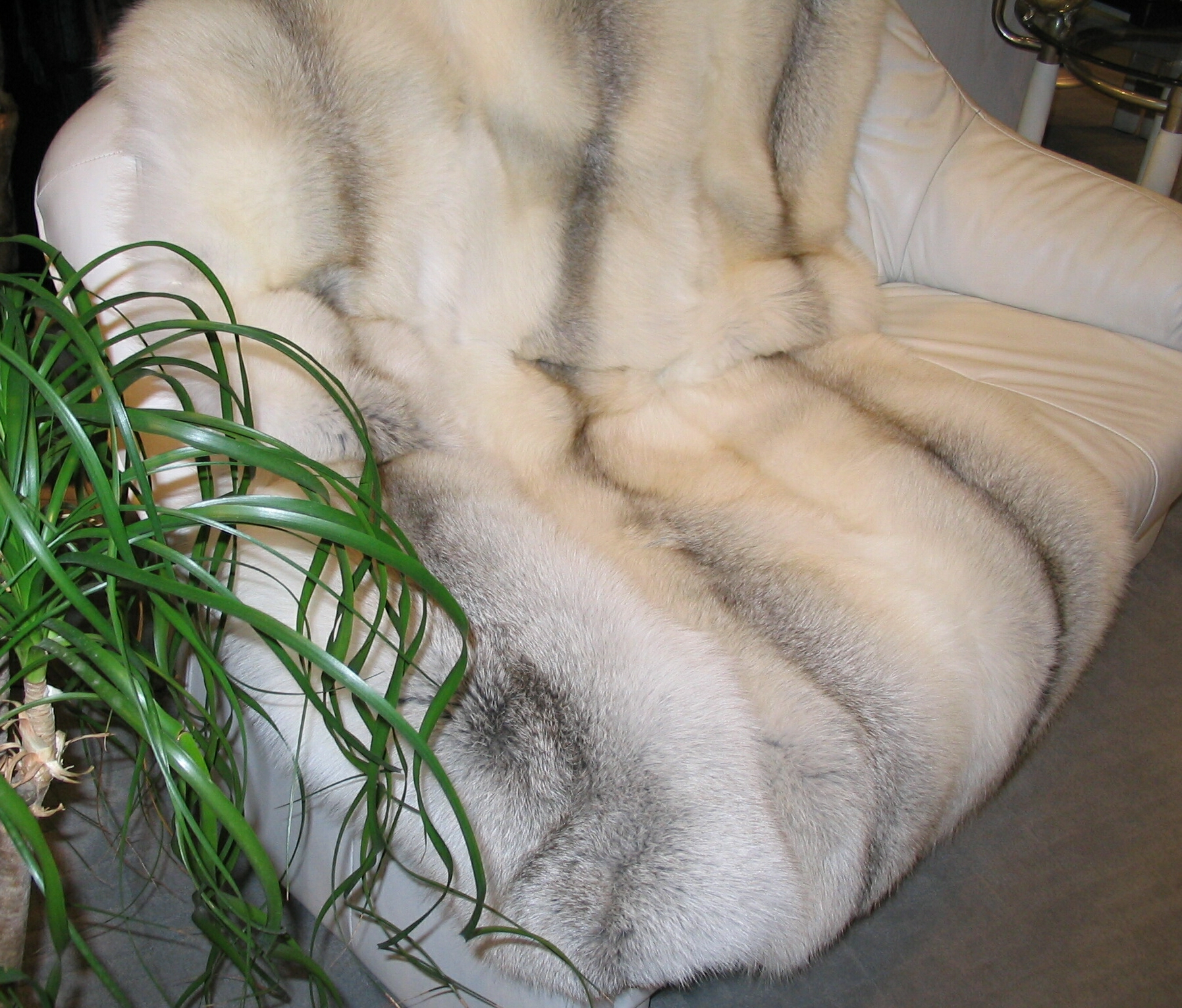 Fawn light fox carpet)